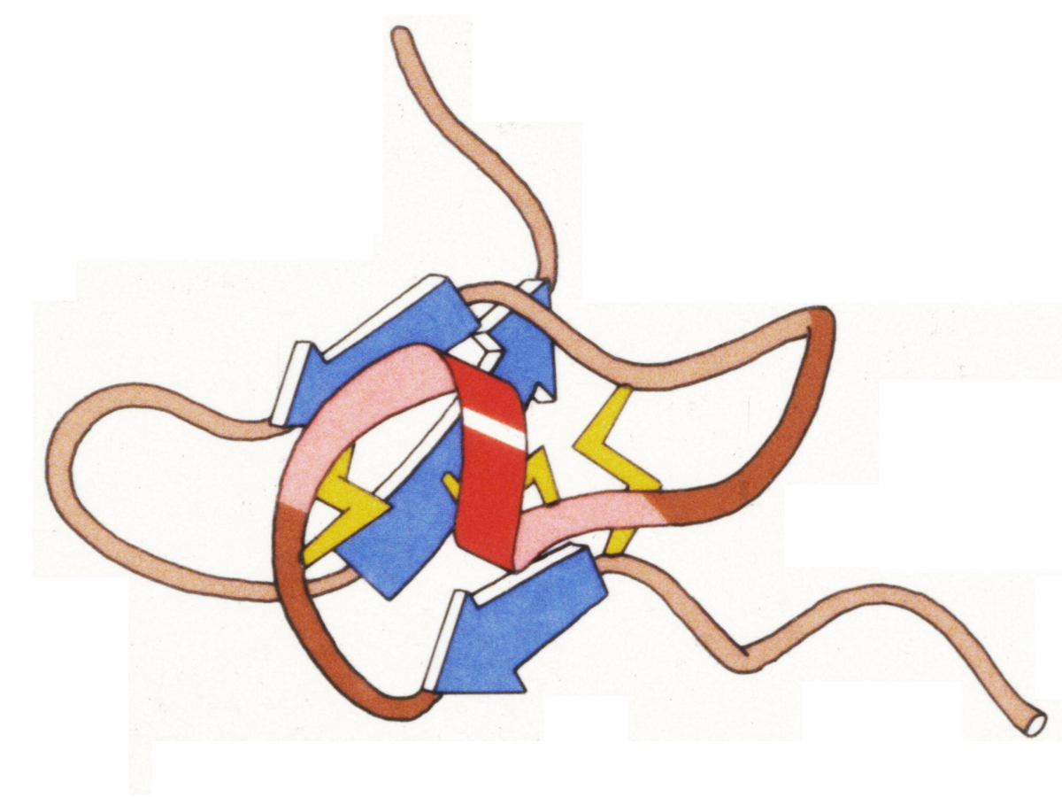 Potato carboxypeptidase inhibitor protein: at top is the C-terminal end that binds in the carboxypeptidase active site and would normally be the first enzymatic substrate in progressive cleavage of the polypeptide chain. However, the inhibitor C-terminus is SS-linked to the helix through a tight ring of SS bonds, so that the enzyme cannot suck in the next residue for cleavage. Alpha helix is in red, beta strands in blue, and SS bonds in yellow. Ribbon diagram hand drawn and colored by Jane Richardson between 1982 and 1984, from PDB file 4CPA.